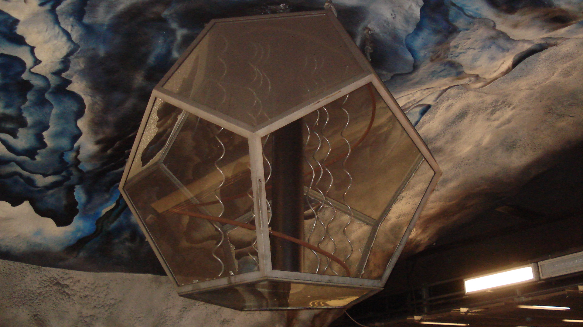 Foto of Dadecahedron at KTH Metro station Stockholm